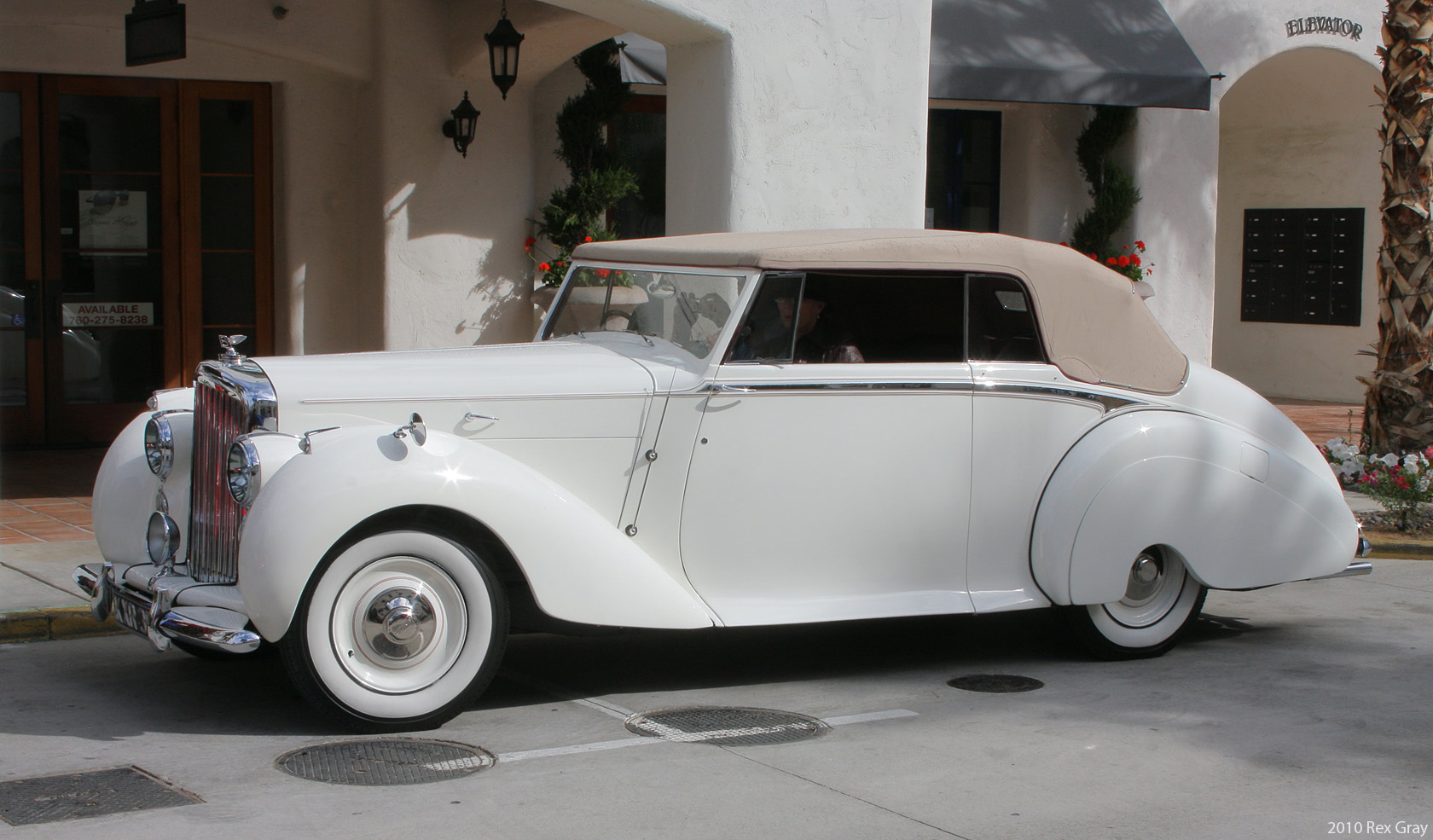 1949 Bentley Mark VI Park Ward Drop Head CoupeThird Annual Desert Classic Concours d'Elegance, Feb 28 2010